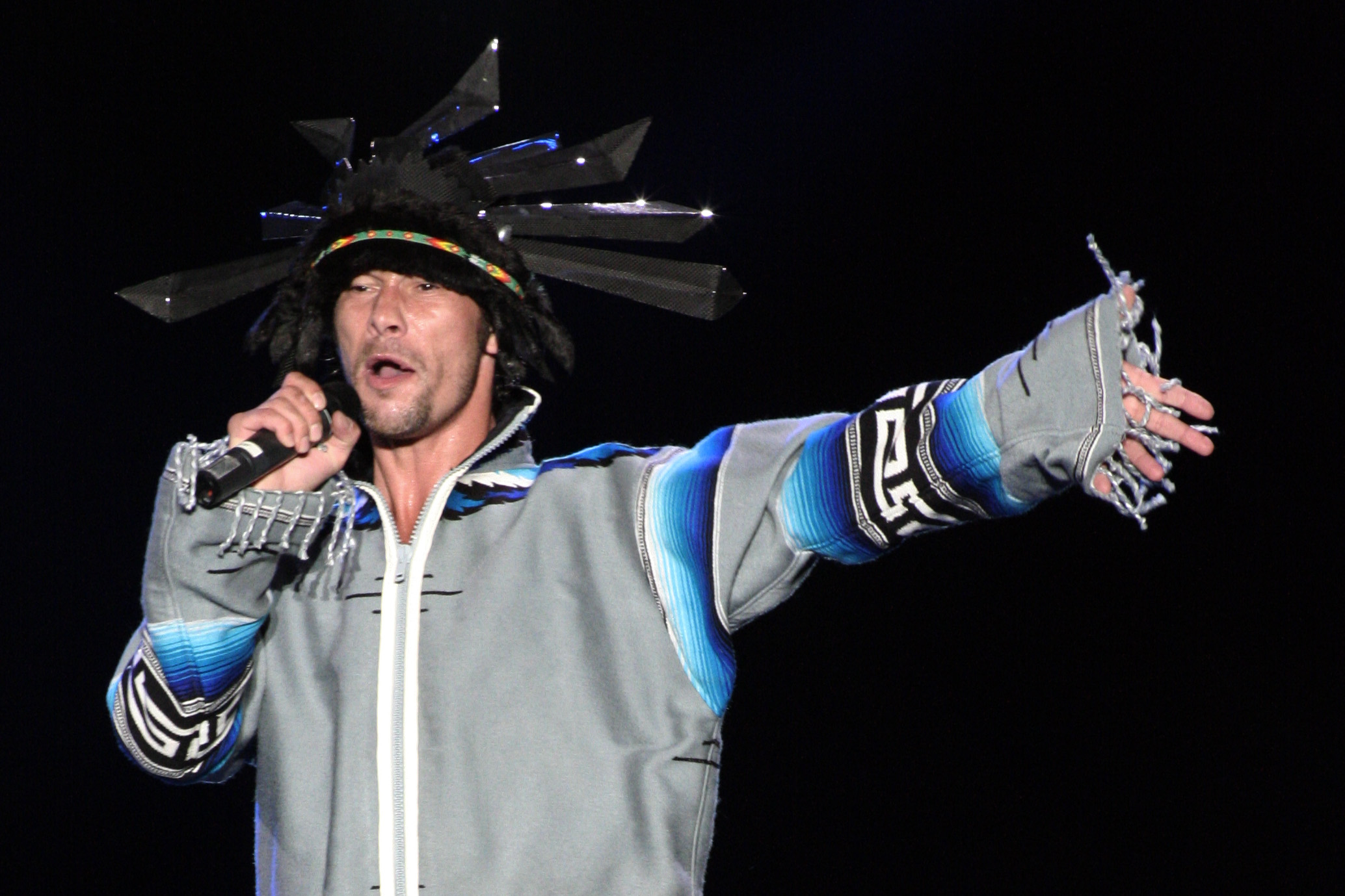 Jamiroquai - Jay Kay at the 2006 Lovebox festival